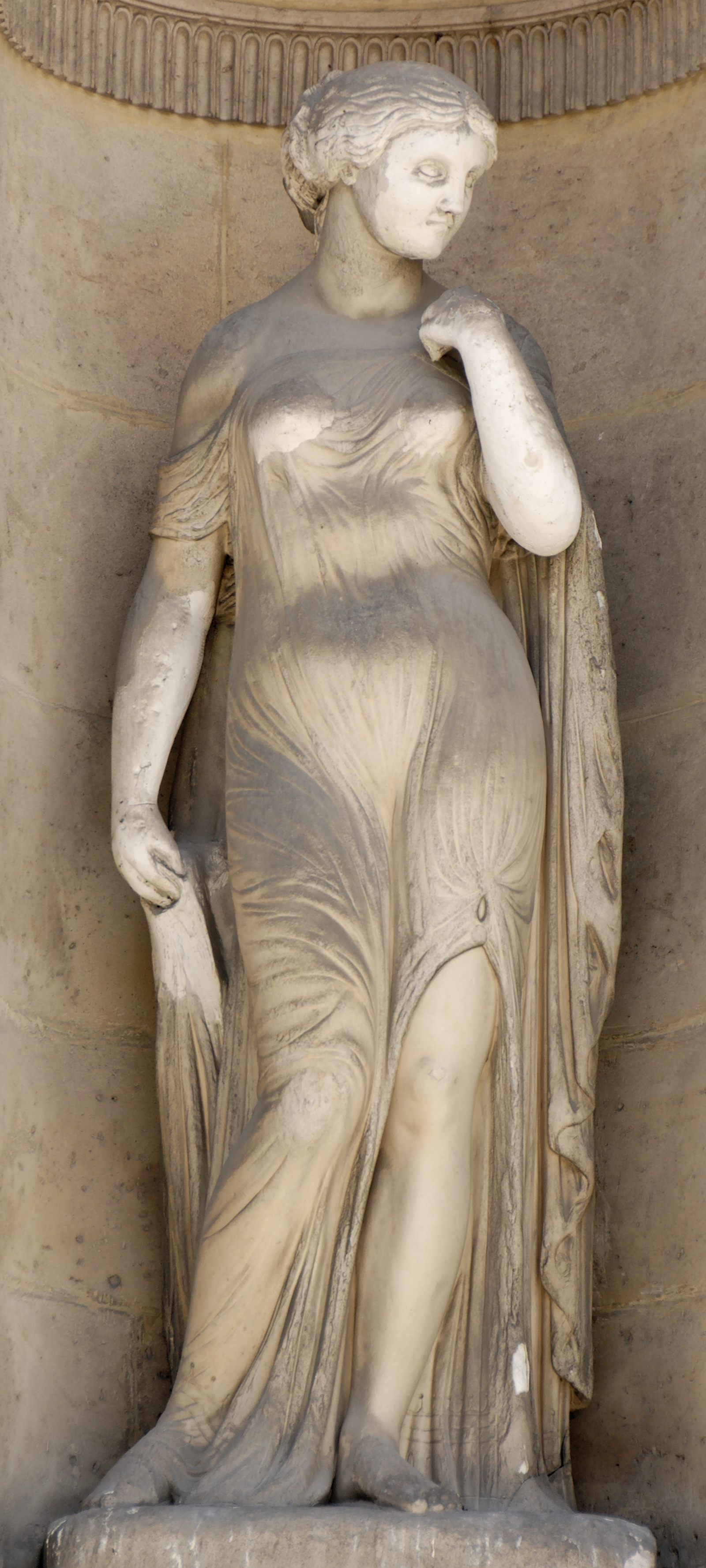 Helen (1859), by Antoine Étex (1808-1888). West façade of the Cour Carrée in the Louvre palace, Paris.